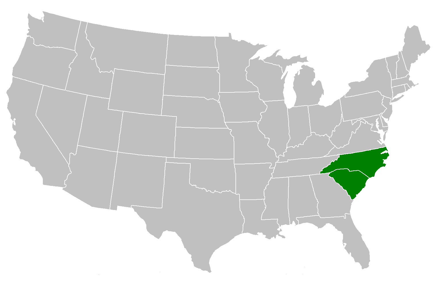 The Carolinas.